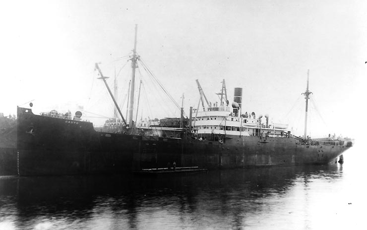 American cargo ship SS Cauto nears completion at the Seattle Construction and Dry Dock Company, Seattle, Washington. She served in the United States Navy as USS Cauto (ID-1538) in 1918-1919.